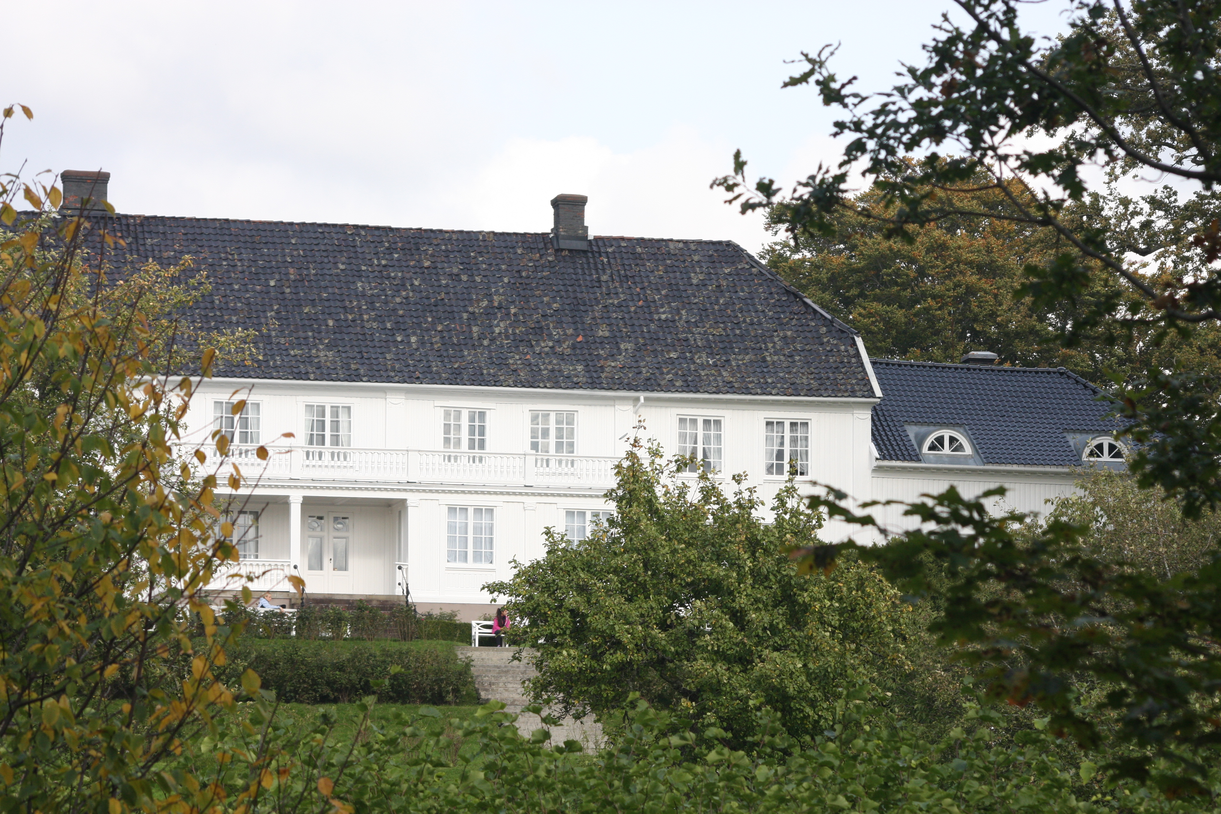 Röd herregaard (Röd manor( in the city of Halden, Norway. It belonged to the Anker family, and was visited by Thomas Robert Malthus in 1799.